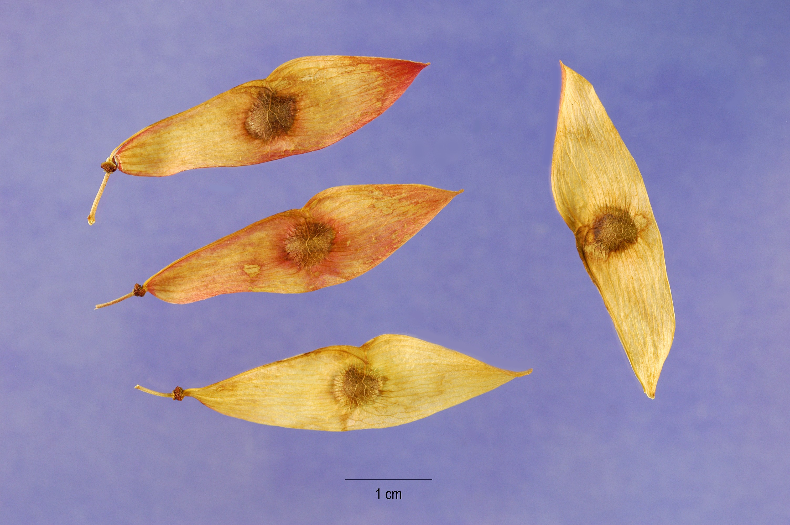 Tree of Heaven